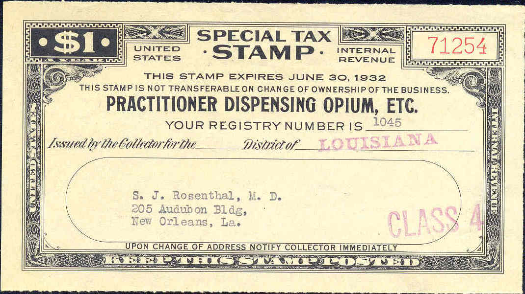 Special tax stamp for physician dispensing opium and other narcotics. New Orleans, Louisiana, 1932.